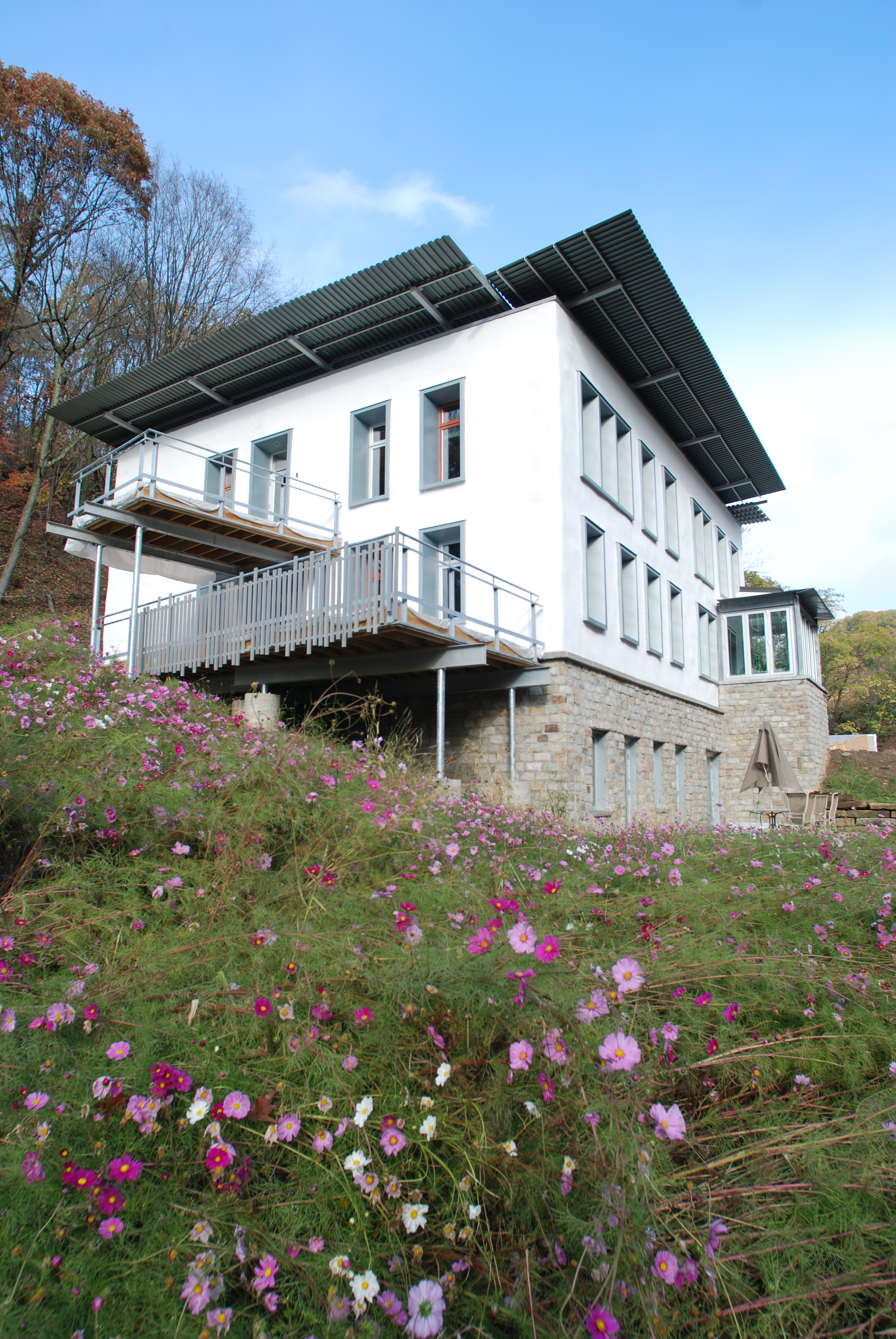 Sota Construction Corporate Headquarters, certified LEED Platinum 2012, showcasing cob walls, native plantings meadow, and daylighting.